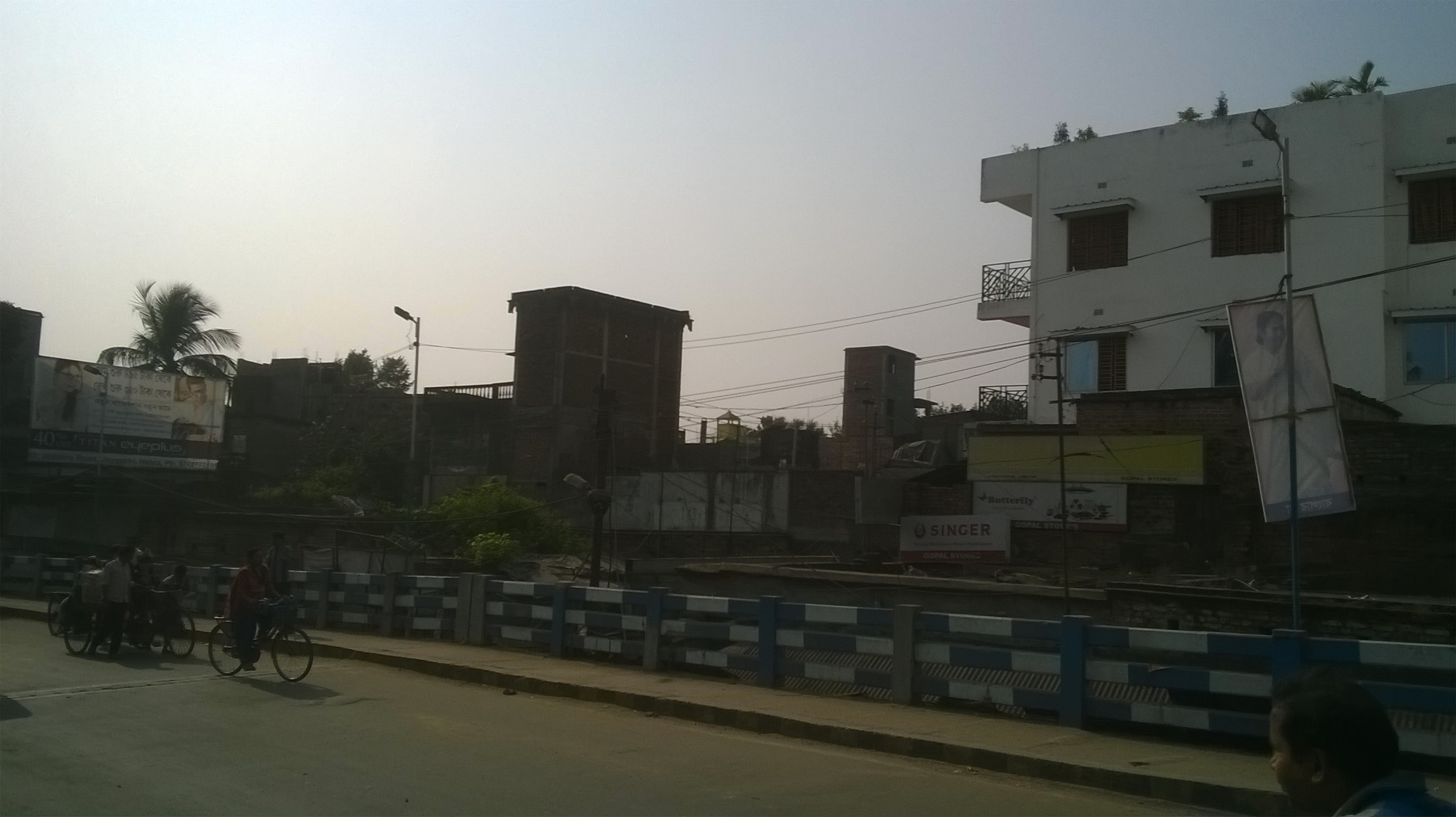 Bongaon City